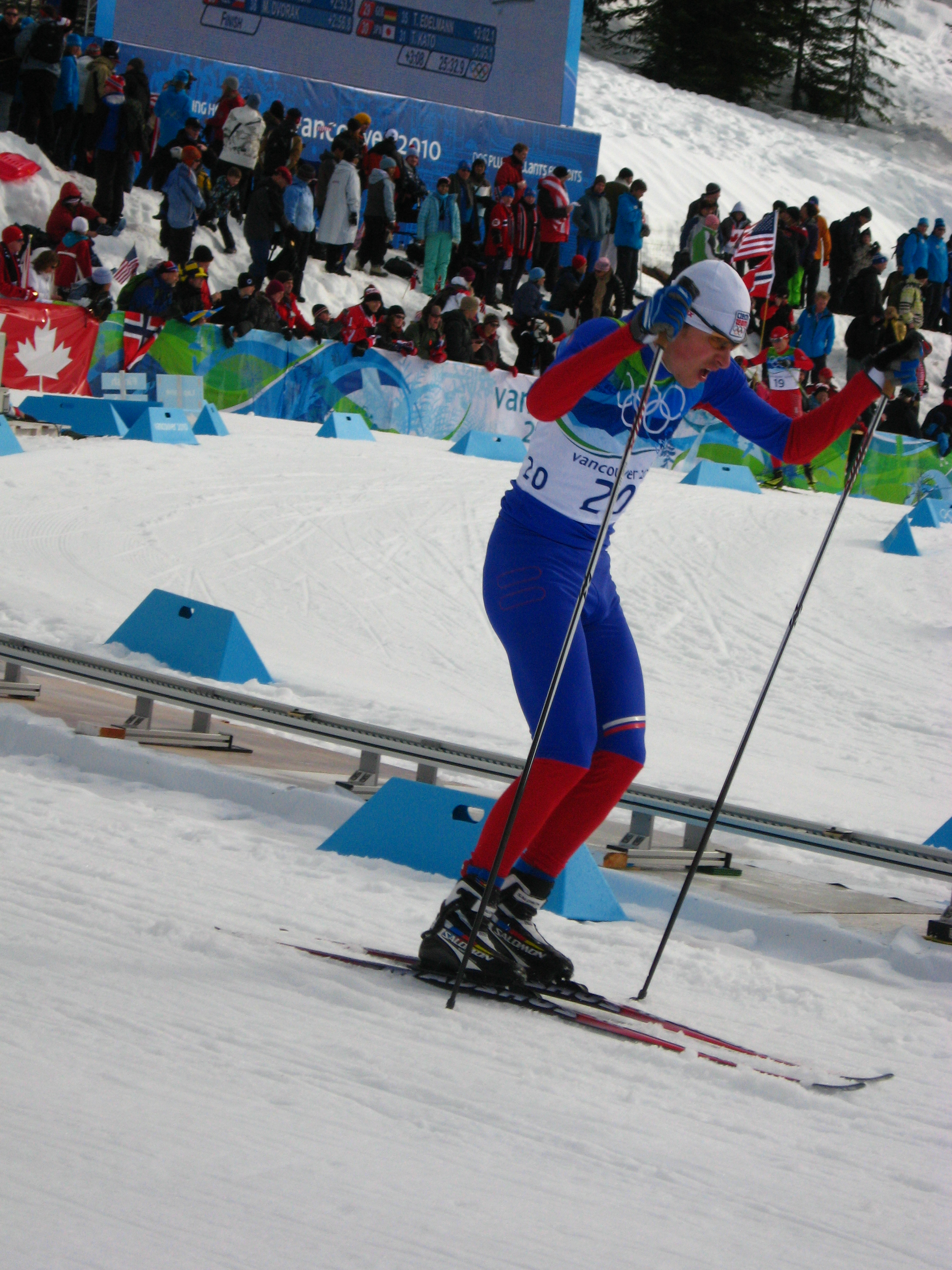 Czech nordic combined skier Aleš Vodseďálek at the 2010 Winter Olympics during second part of the Individual large hill/10 km event.